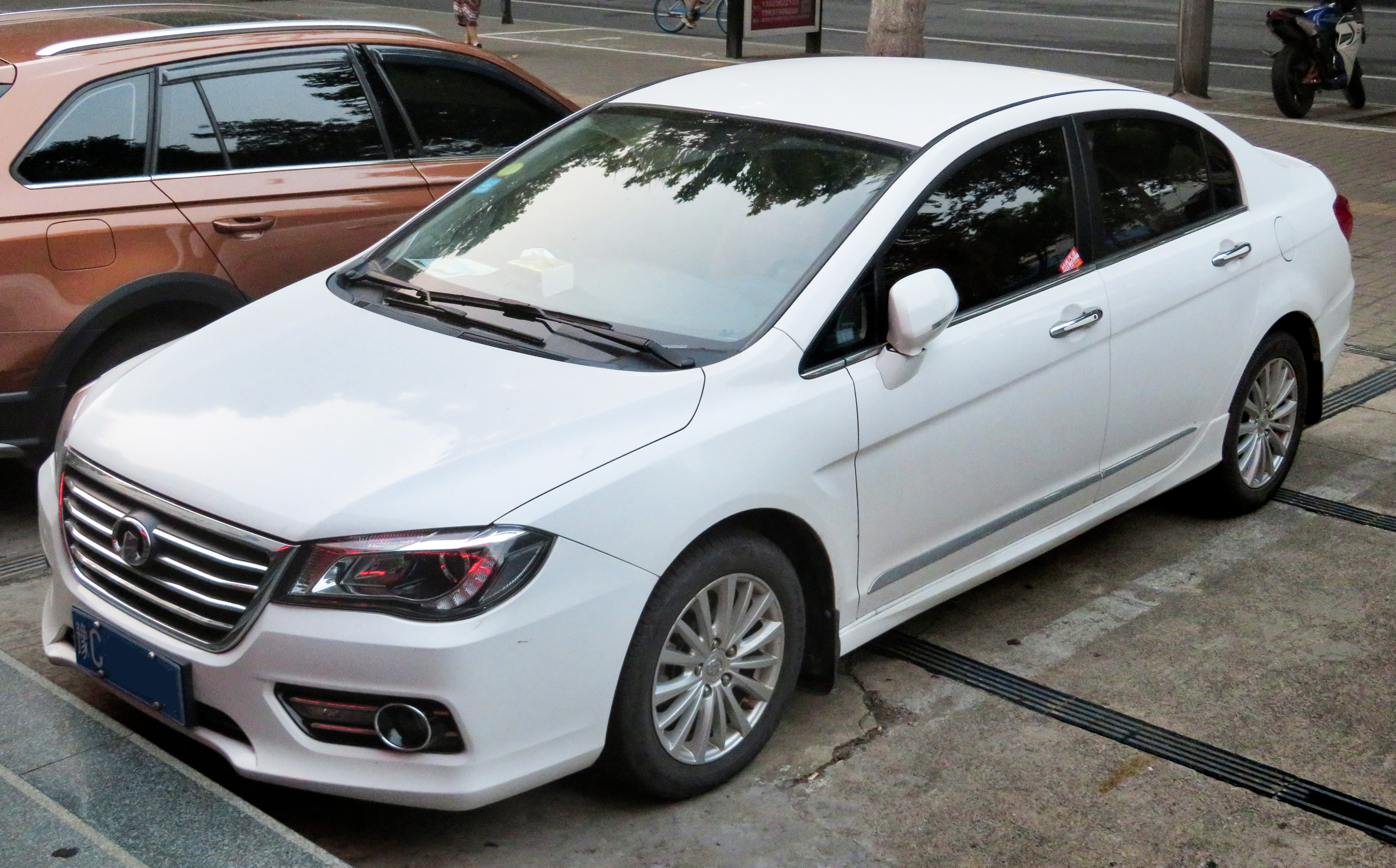 A 2016 Great Wall Voleex C50 (facelift) photographed in Xigong District, Luoyang, Henan province, China